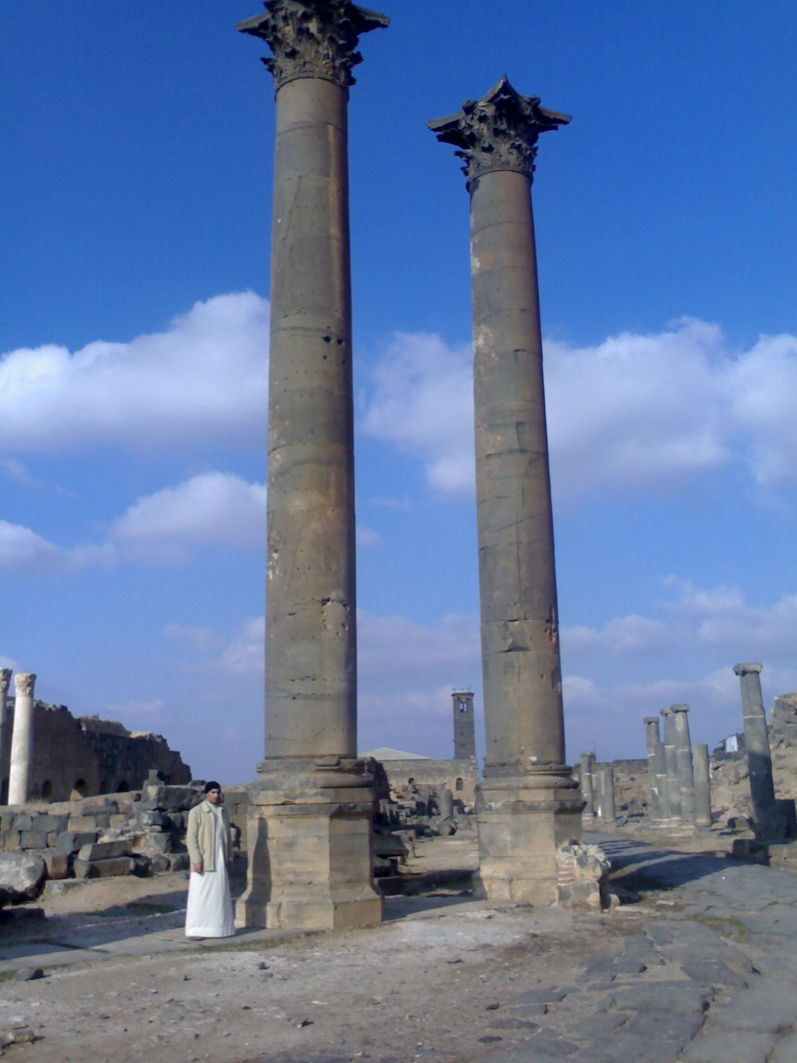 Two big pillars in comparation to a man, in the Nabatean city of Bosra, Syria.